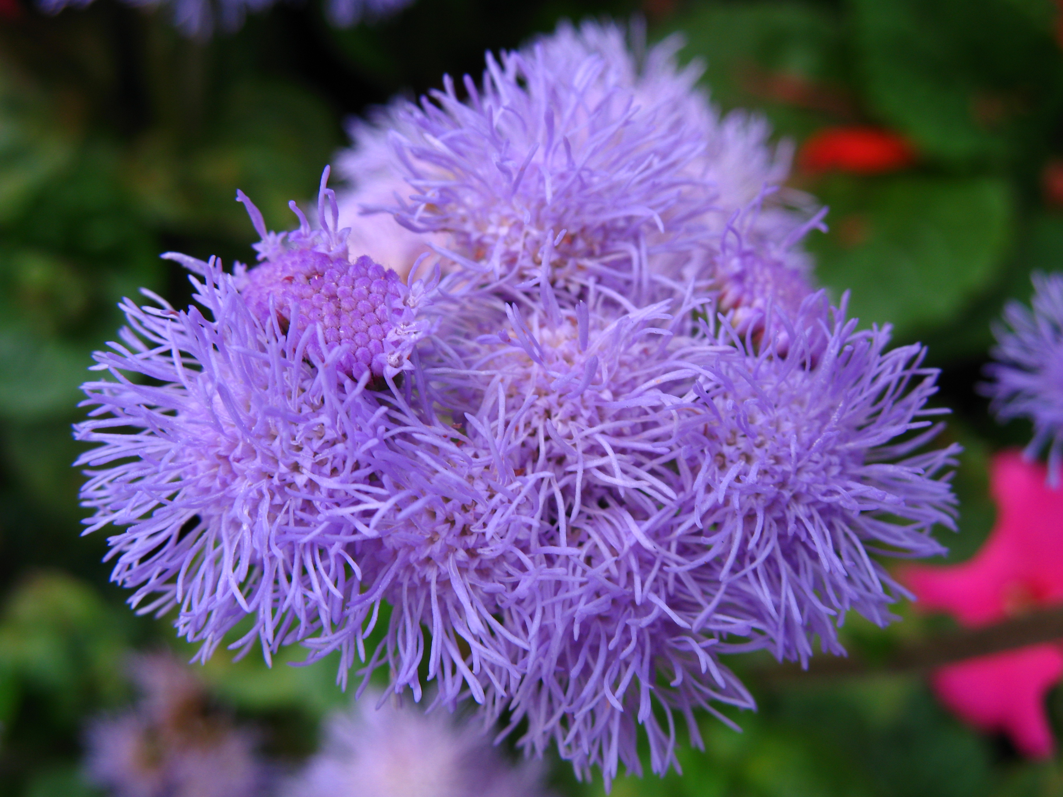 Flossflower (Ageratum houstonianum), Luzern, Switzerland